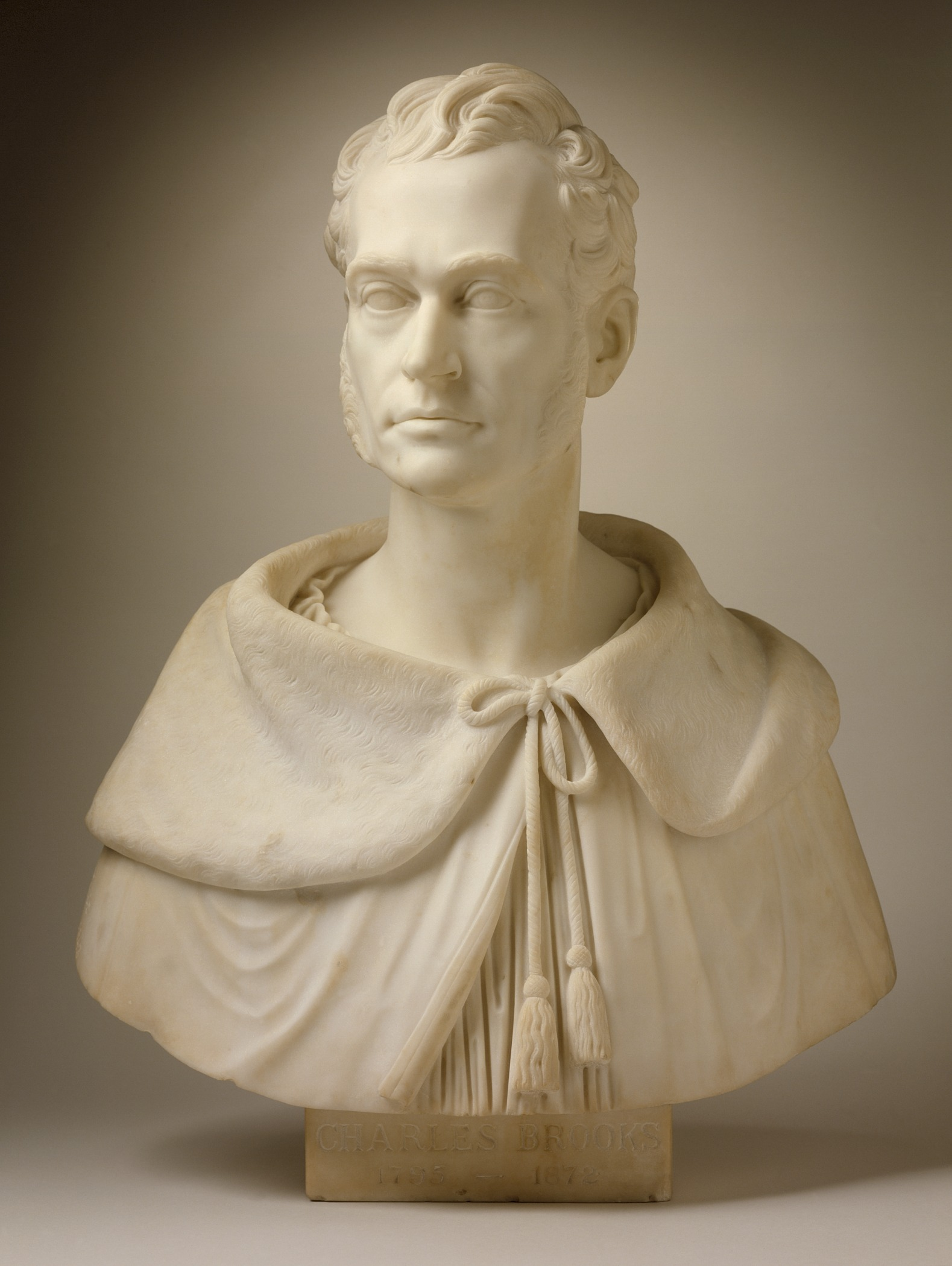 United States, 1843 Sculpture Marble Gift of Mr. and Mrs. Herbert M. Gelfand (AC1993.26.1) American Art